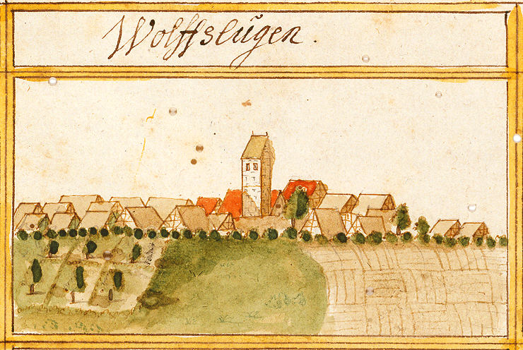 View of Wolfschlugen from the forest register books created by Andreas Kieser